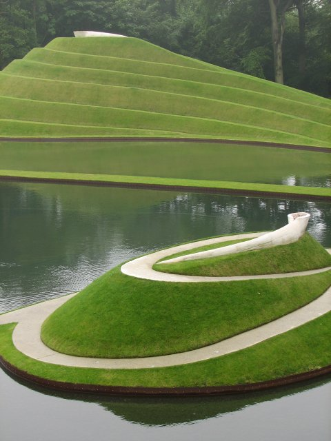 Life Mounds by Charles Jencks Huge landform sculpture by the landscape architect Charles Jencks. Part of the Jupiter Artland installation.